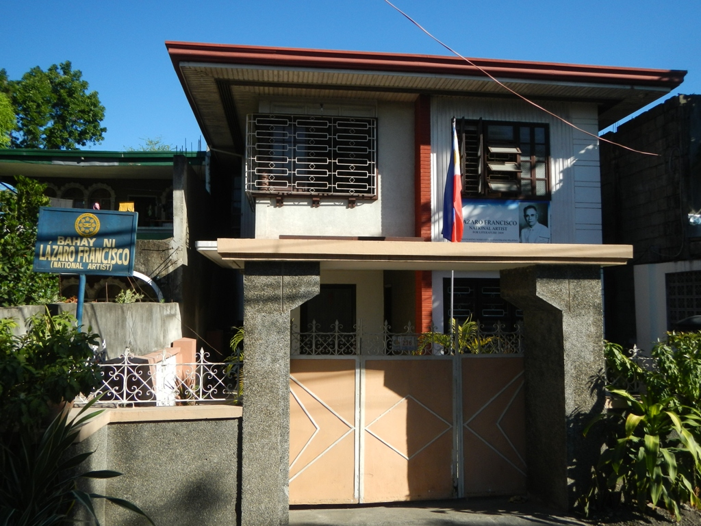 Museo Lazaro Francisco (Cabanatuan City, Nueva Ecija)